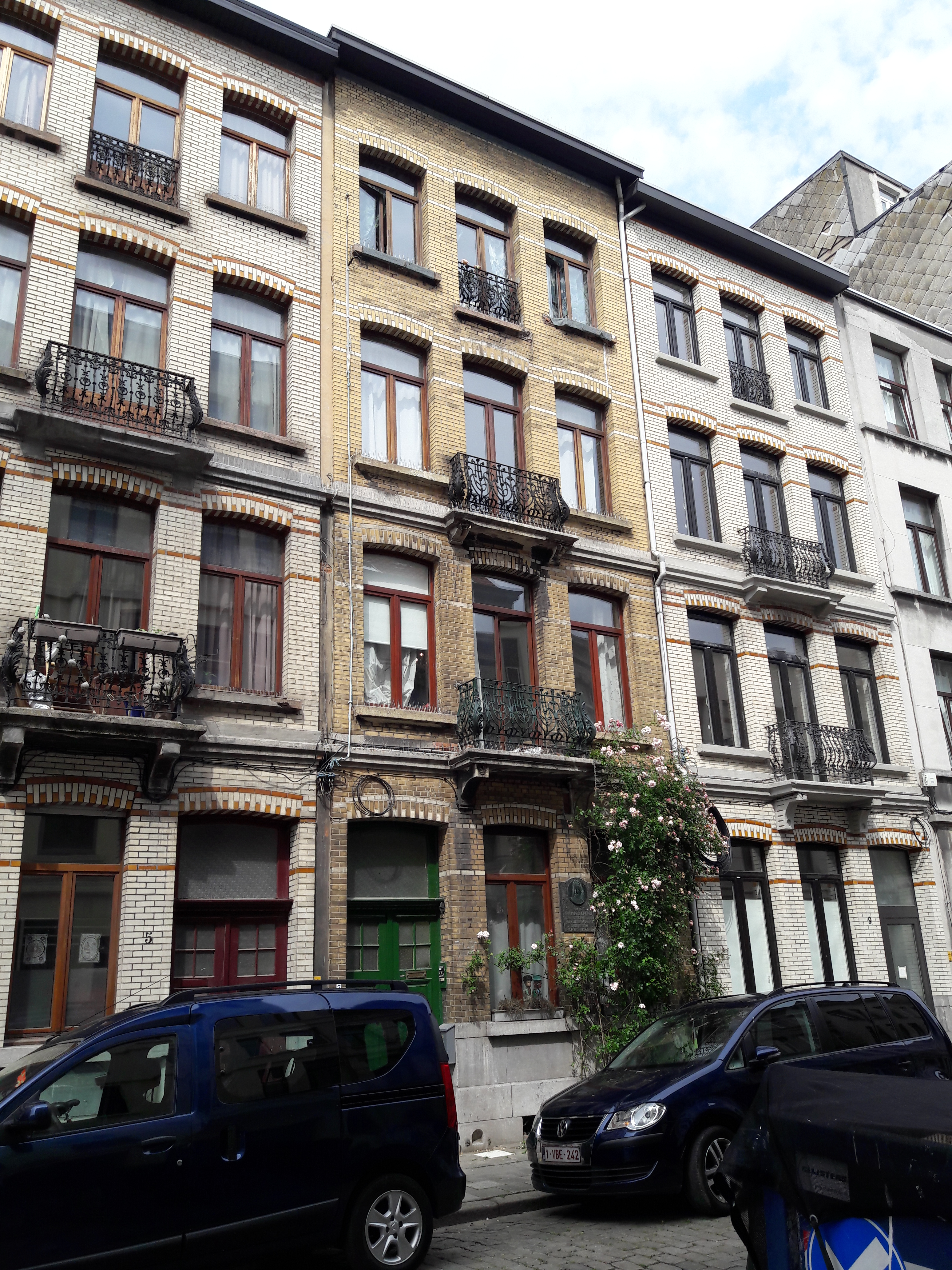 The Mala Zimetbaum house, Marinisstraat 7, Antwerpen-Borgerhout. Plaque with inscription “to Mala Zimetbaum. Symbol of solidarity. On 22 August 1944 [sic], murdered in Auschwitz by the Nazis."